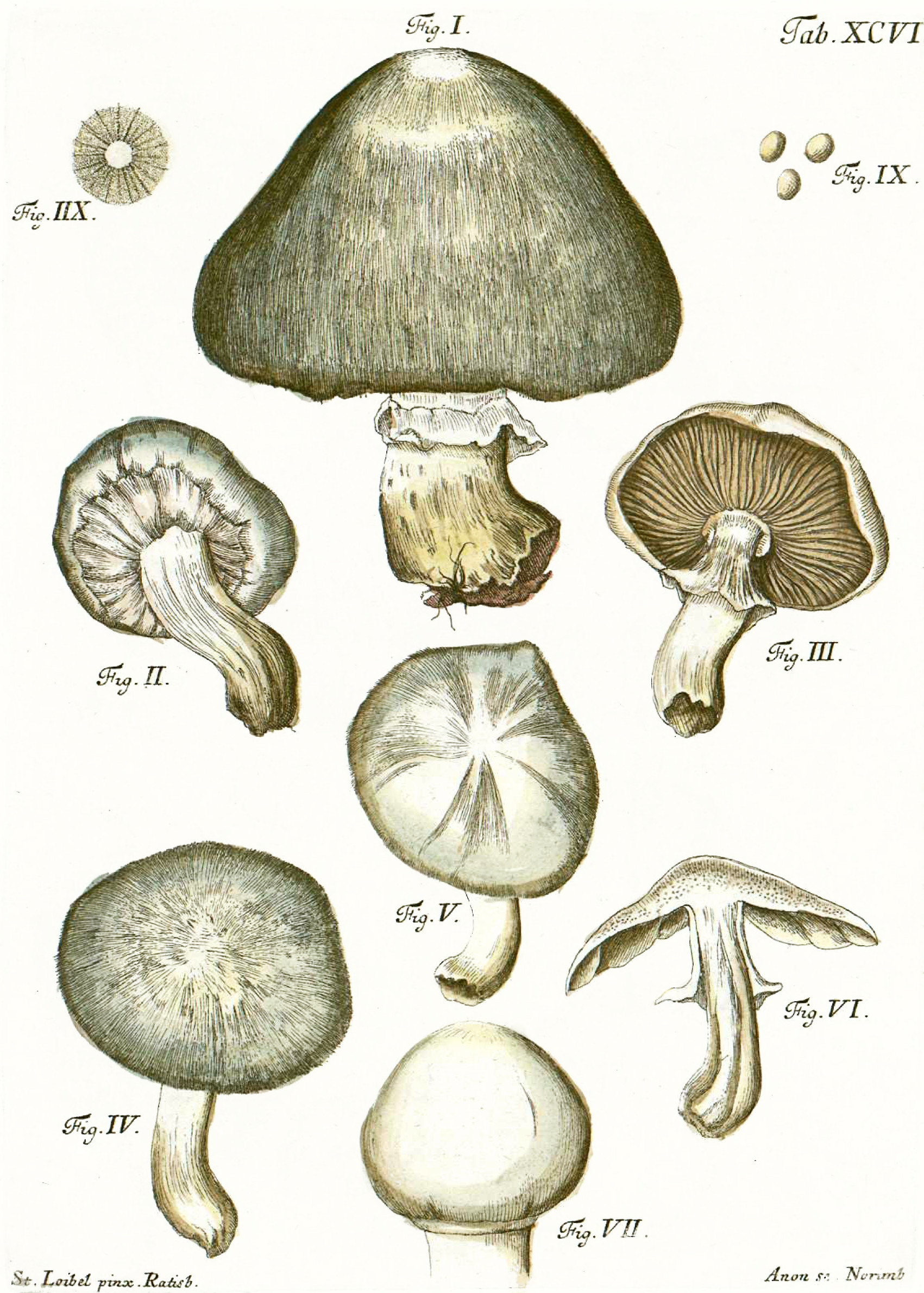 Explanation of the 96th plate by the author J.C. Schäffer (in German und Latin) The plate shows Agaricus pratensis Schaeff., Fungorum qui in Bavaria et Palatinatu circa Ratisbonam nascuntur icones, Vol 4: Seite 42 (1774). According to the right scientific name is now Hygrocybe pratensis (Schaeff.) Murrill